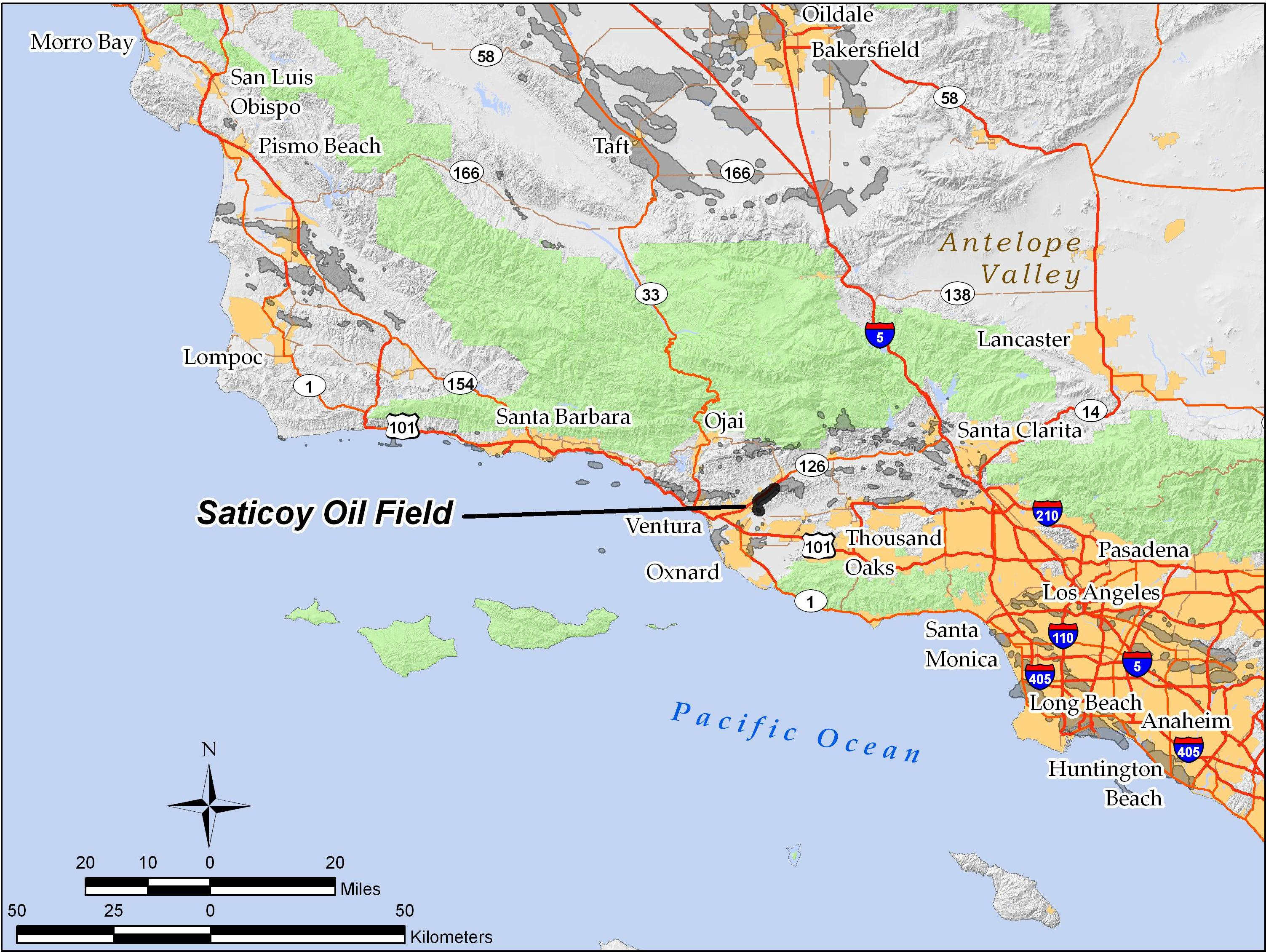 Location of Saticoy field in southern California; by self in ArcGIS 9.3, using only public domain data